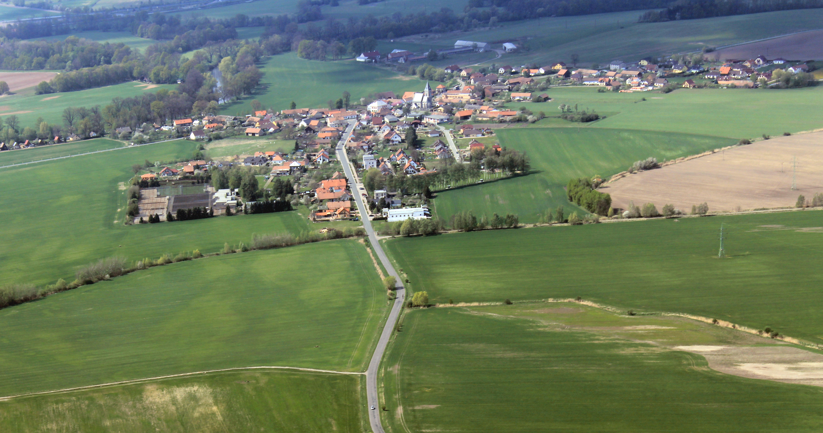 Village Dříteč from air, eastern Bohemia, Czech Republic